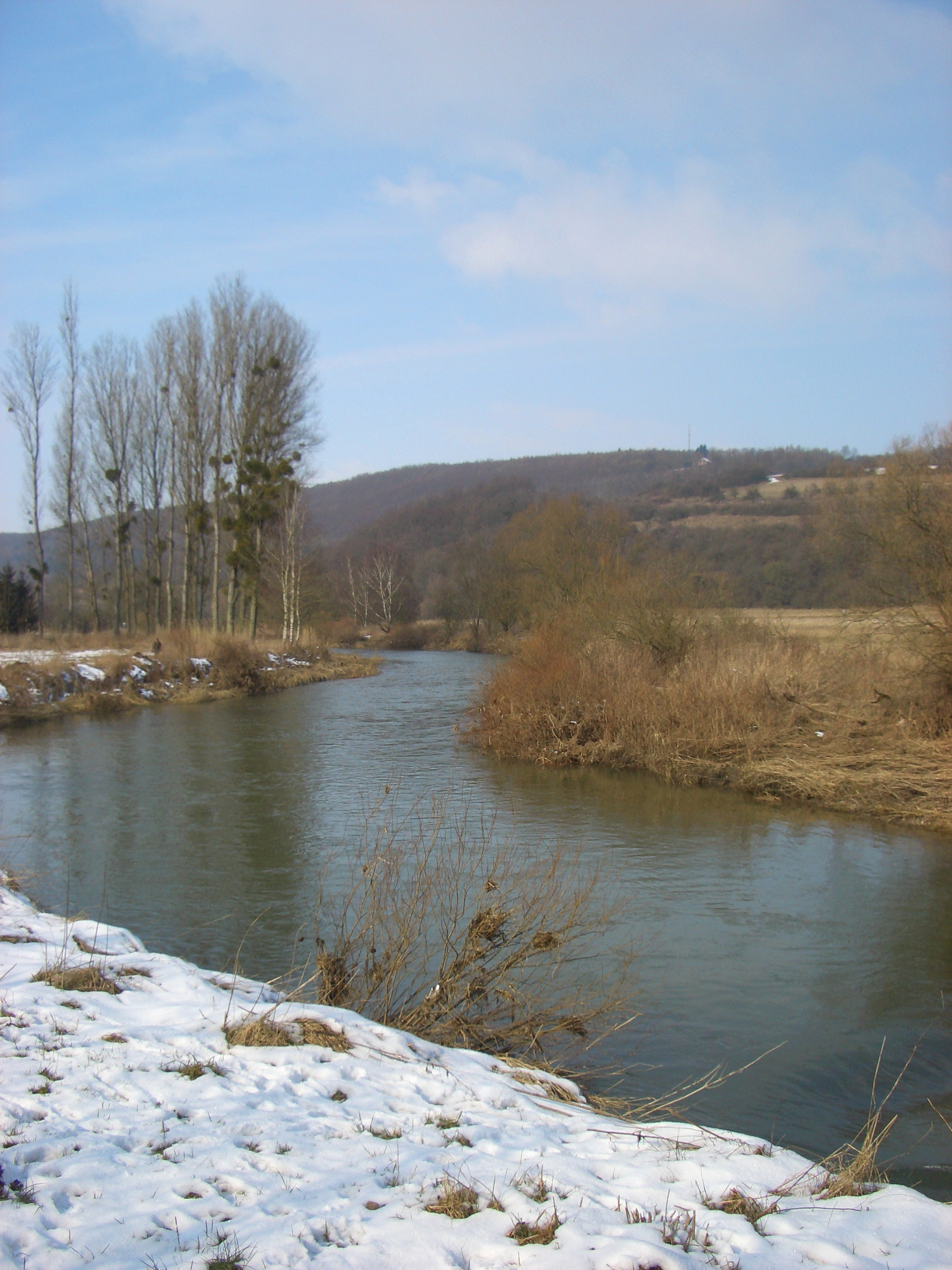 Nied valley between Hemmersdorf and Siersburg